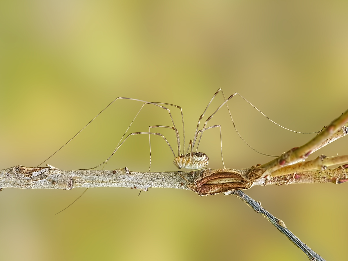 Opiliones